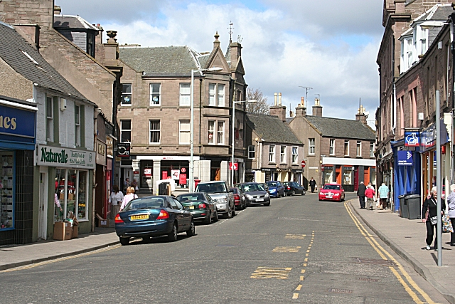 Castle Street This is one of the main streets of Forfar, the others being East and West High Streets. It links the Cross with the alleged site of King Malcolm Canmore's castle, which stands on a small hill to the east of Castle Street. The old name of Castle Street was Spout Street.